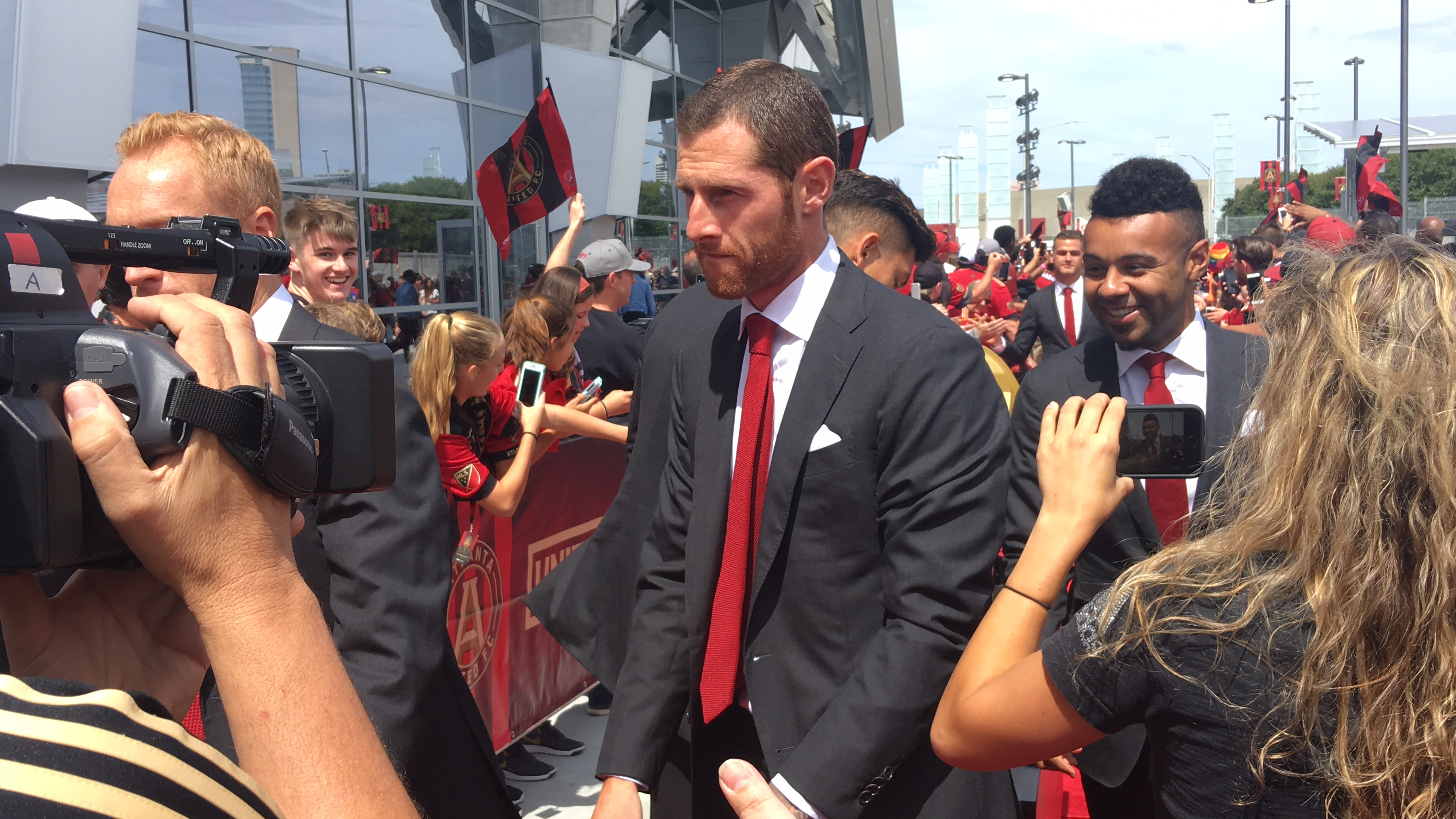 Chris McCann after signing the Gold Spike while playing for Atlanta United. September 10, 2017